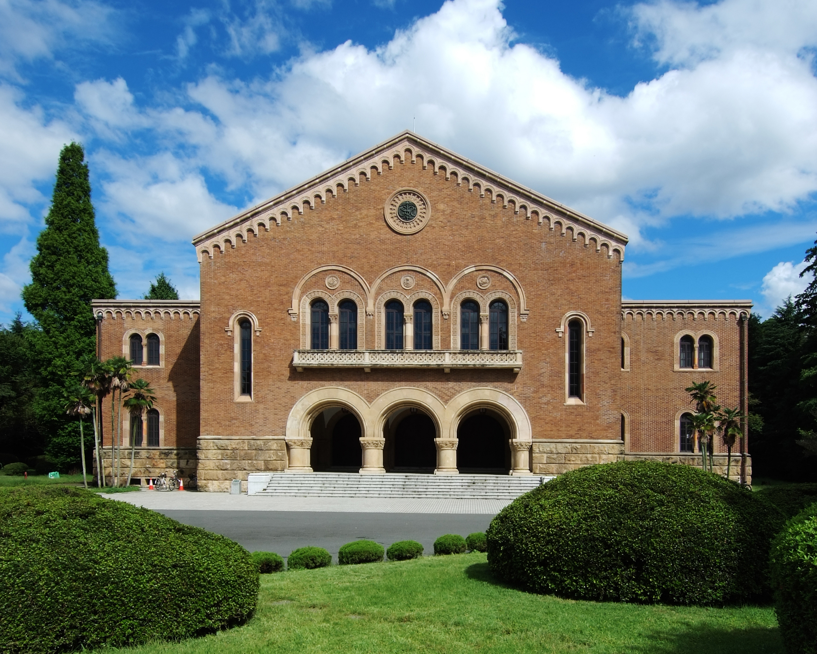 Kanematsu auditorium of Hitotsubashi university, Kunitachi Tokyo Japan, design by Chuta Ito in 1927.